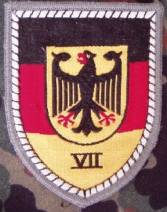 coat of arms of the Bundeswehr (Armed Forces of the Federal Republic of Germany). → Remarks on naming and categorization scheme